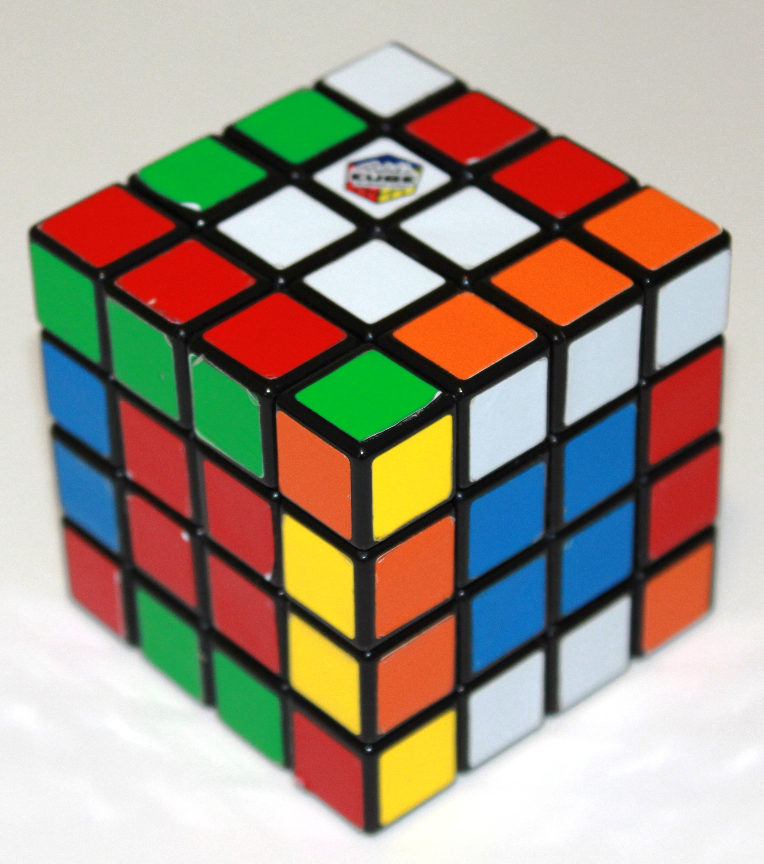 This is a photo of a "Rubiks cube"-like sequential move puzzle.